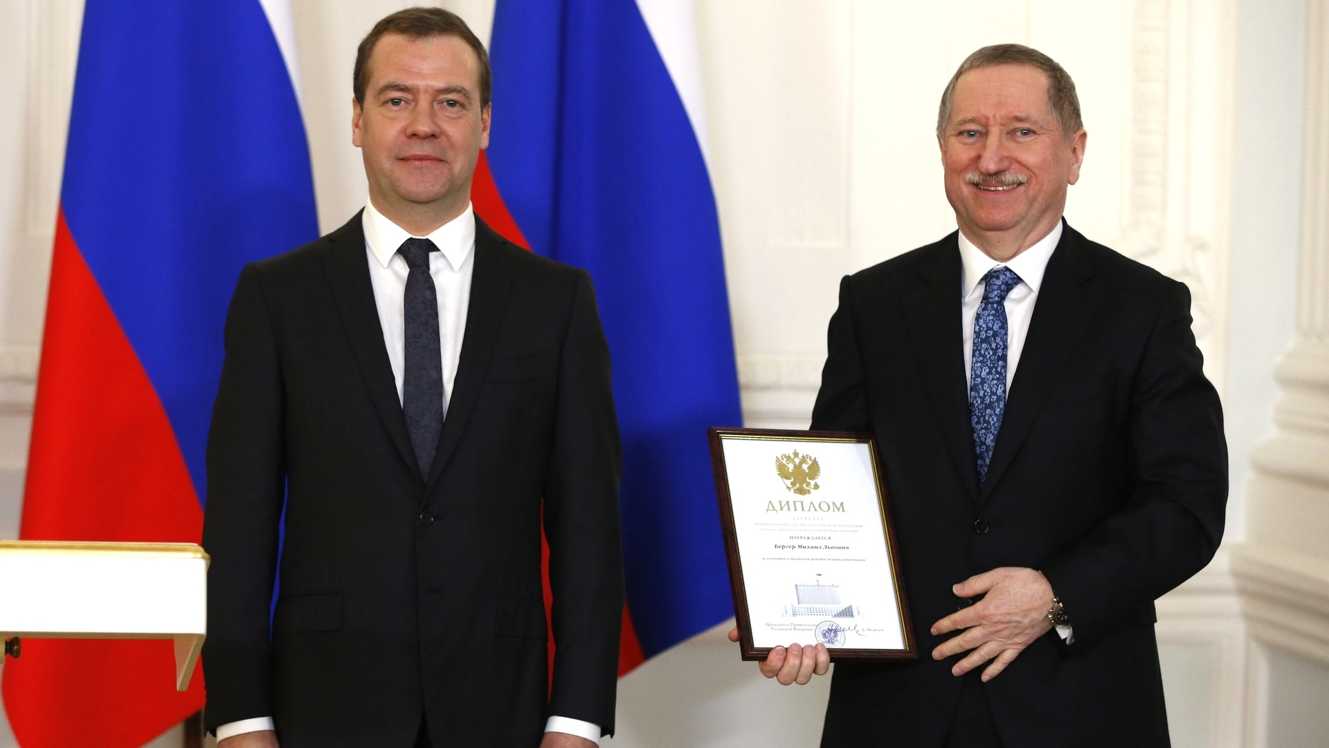 Dmitry Medvedev with Mikhail Berger